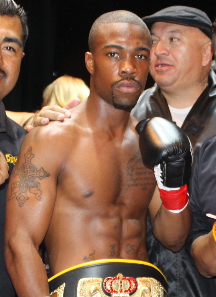 Gary Russell, Jr. at Fight Night Club event at the Club Nokia in Los Angeles, California, United States.